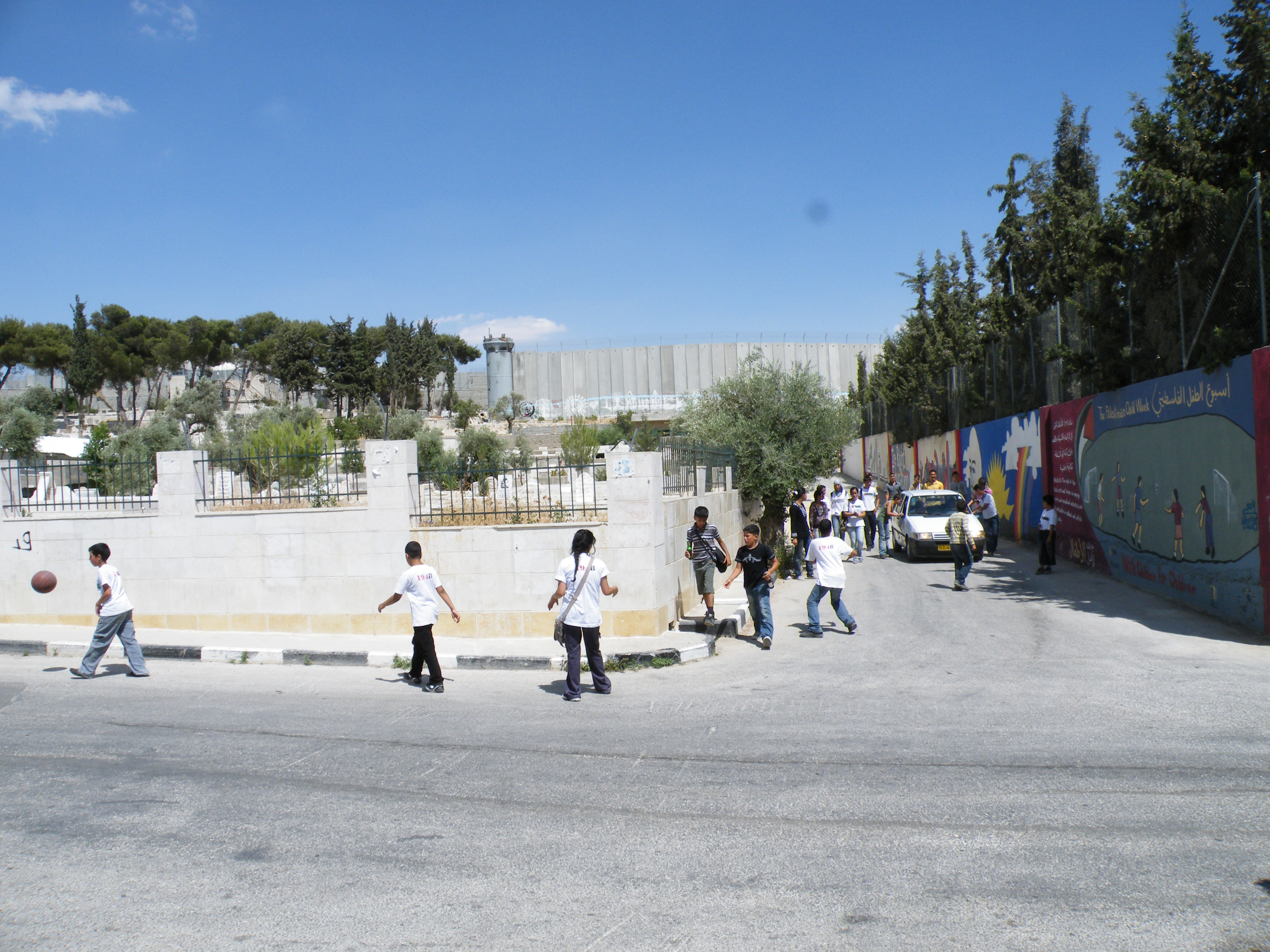 Children walking home to the Aida Camp from school, in front of the Israeli Walls.